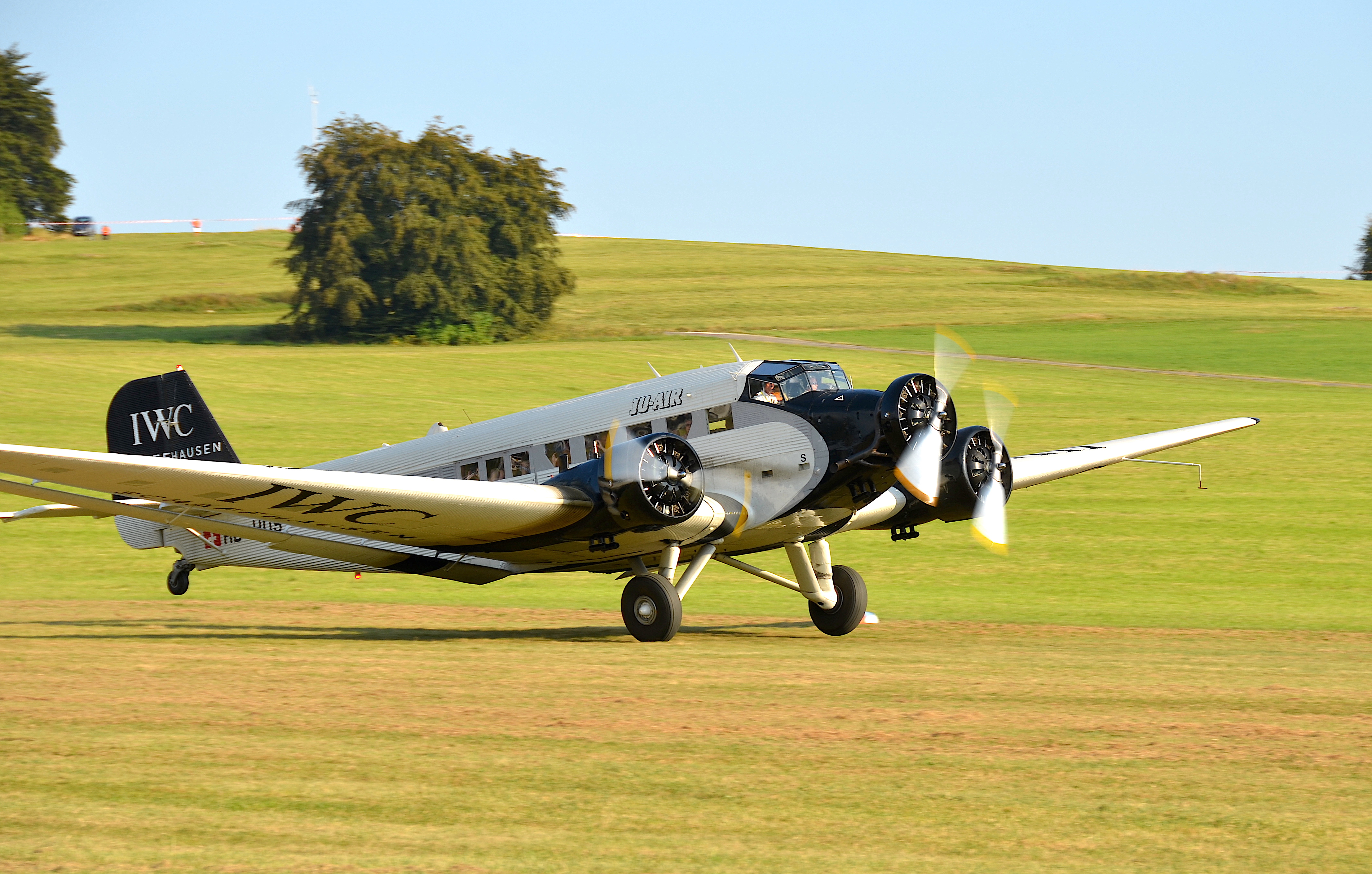 Ju 52 HB-HOS operated by JU-AIR (2016)